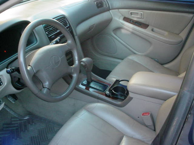 ES 300